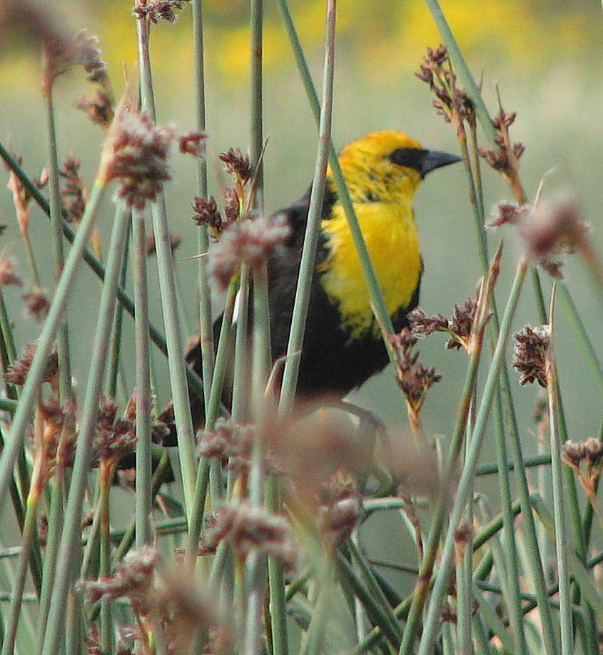 Yellow-headed Blackbird (Xanthocephalus xanthocephalus), male, Iona Island, Richmond, BC